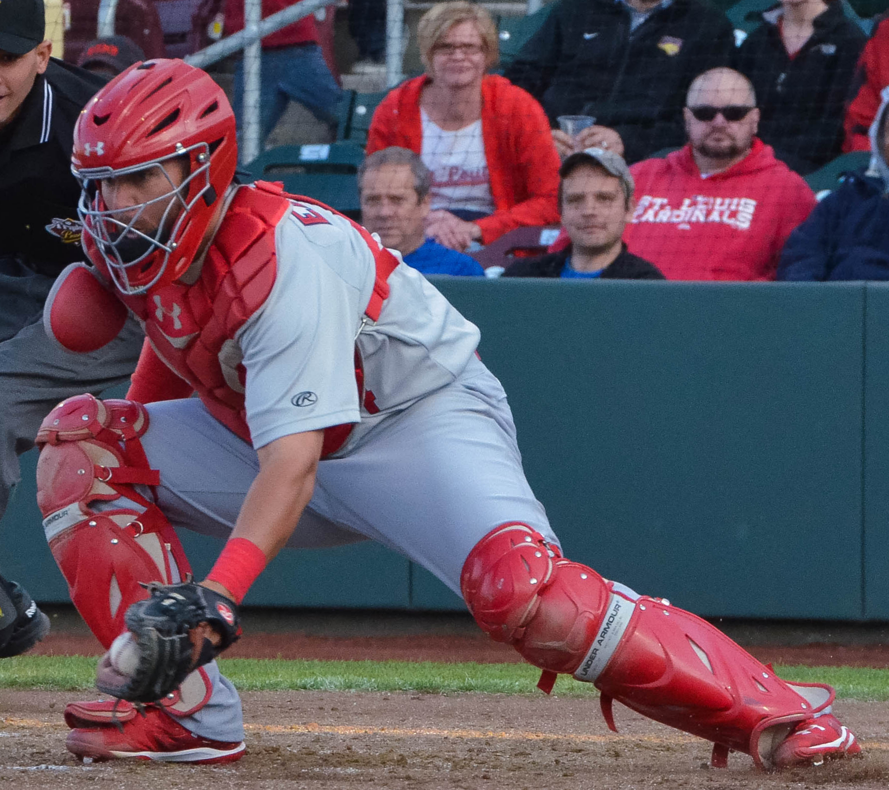 Ed Easley